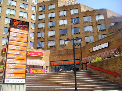 Situated opposite Dunda's Street West Subway